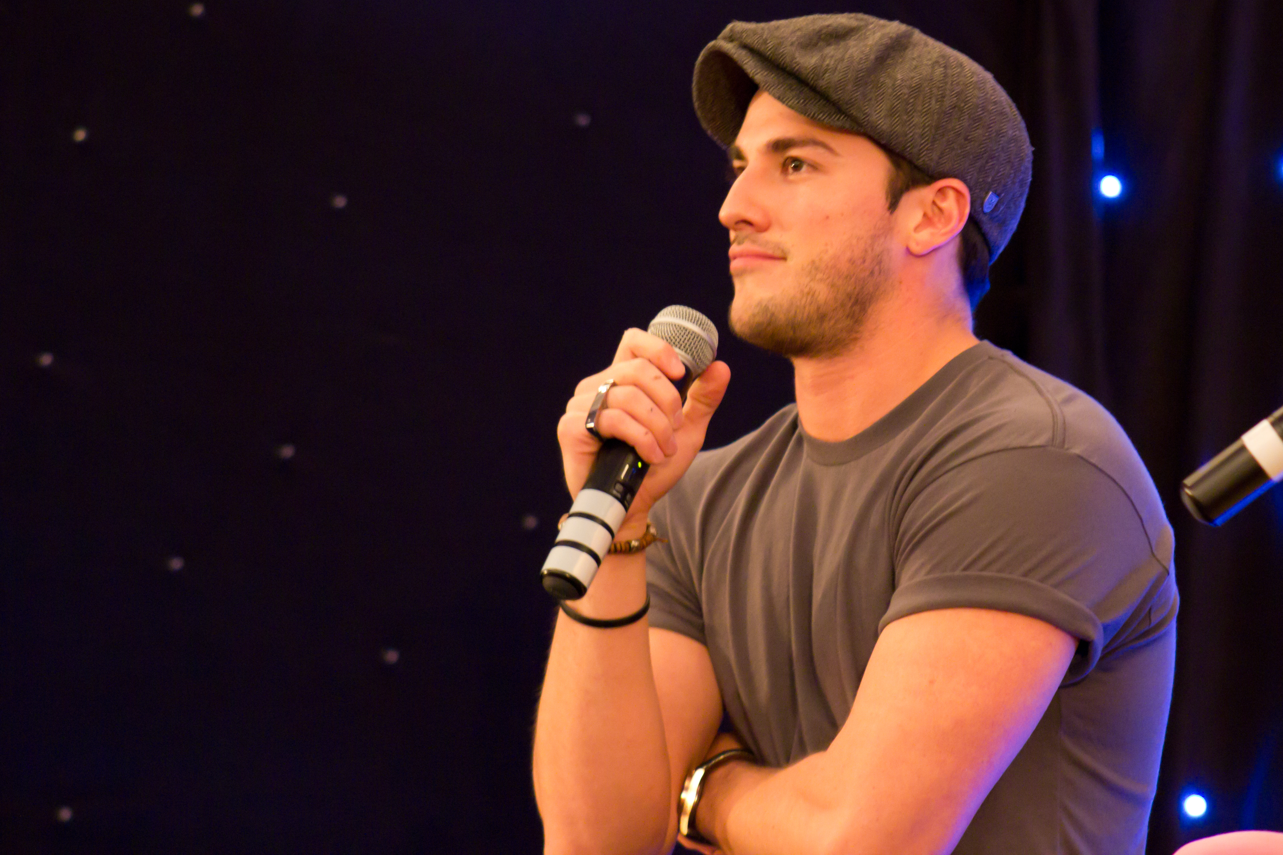 Michael Trevino